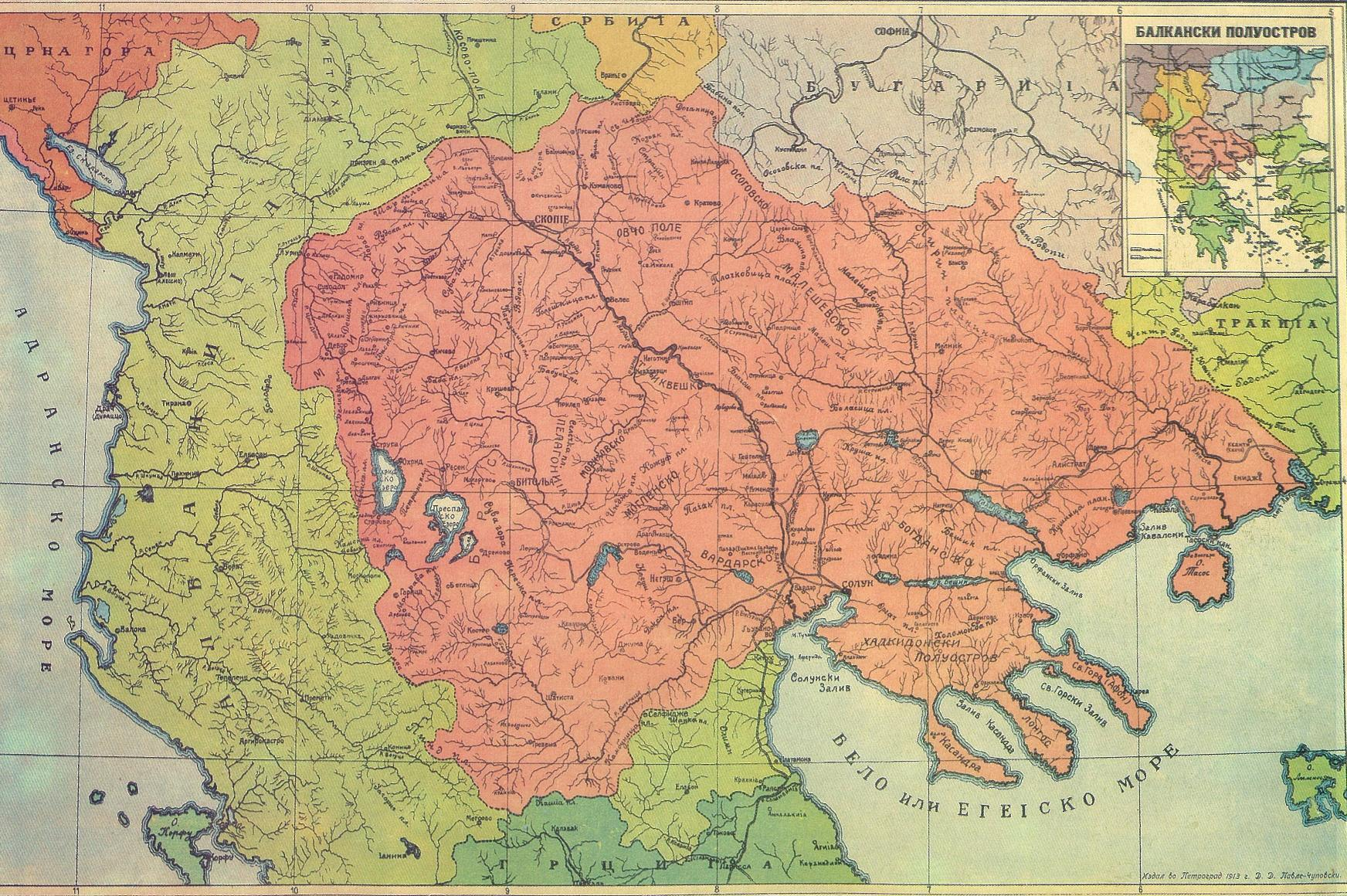 Karta Makedoniia po programa na Makedonskite narodnici- D. Chupovski in 1913, St Petersburg